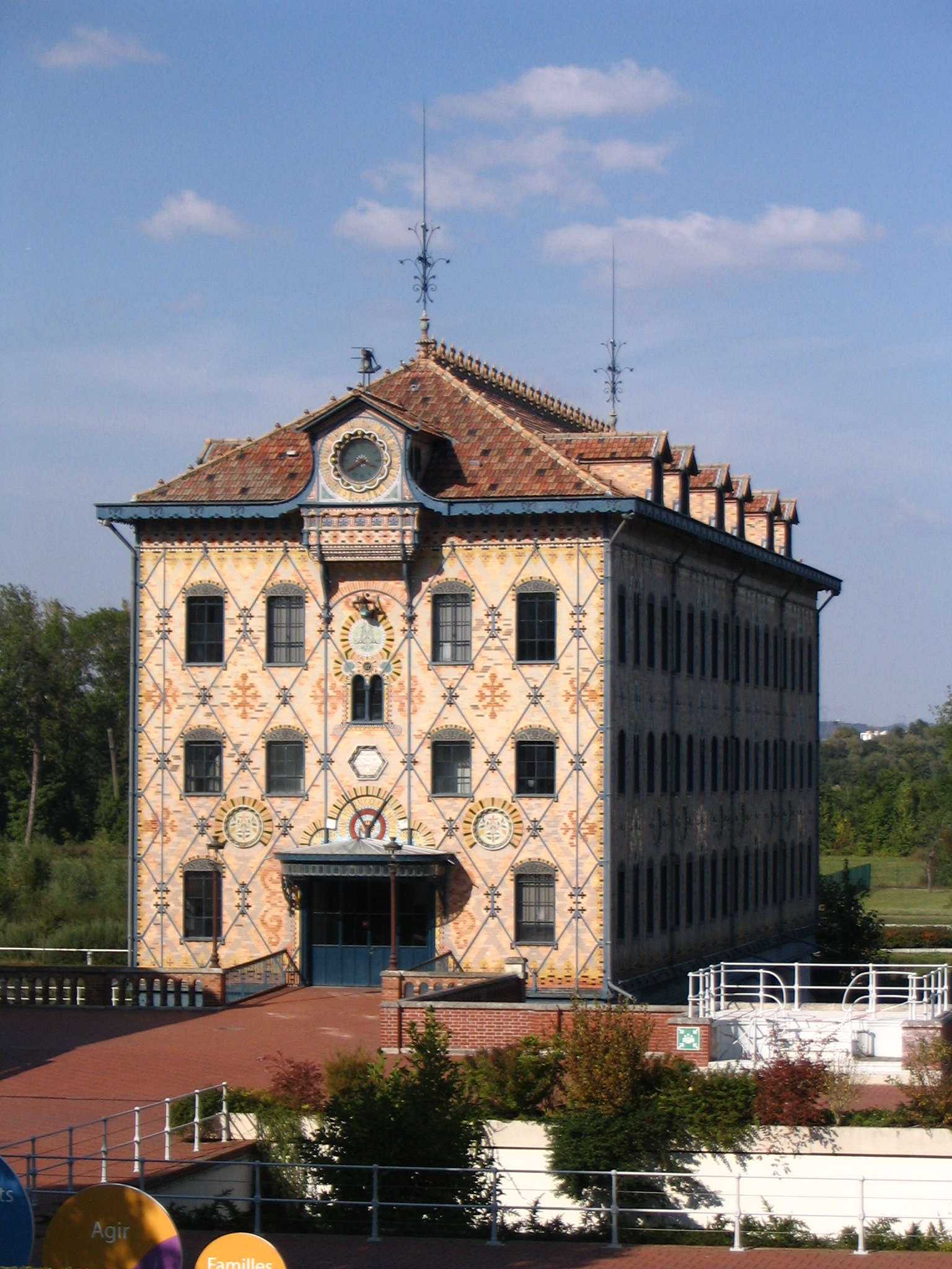 The former Menier chocolate factory in Noisiel, Seine-et-Marne, France, now the headquarters of Nestlé France.